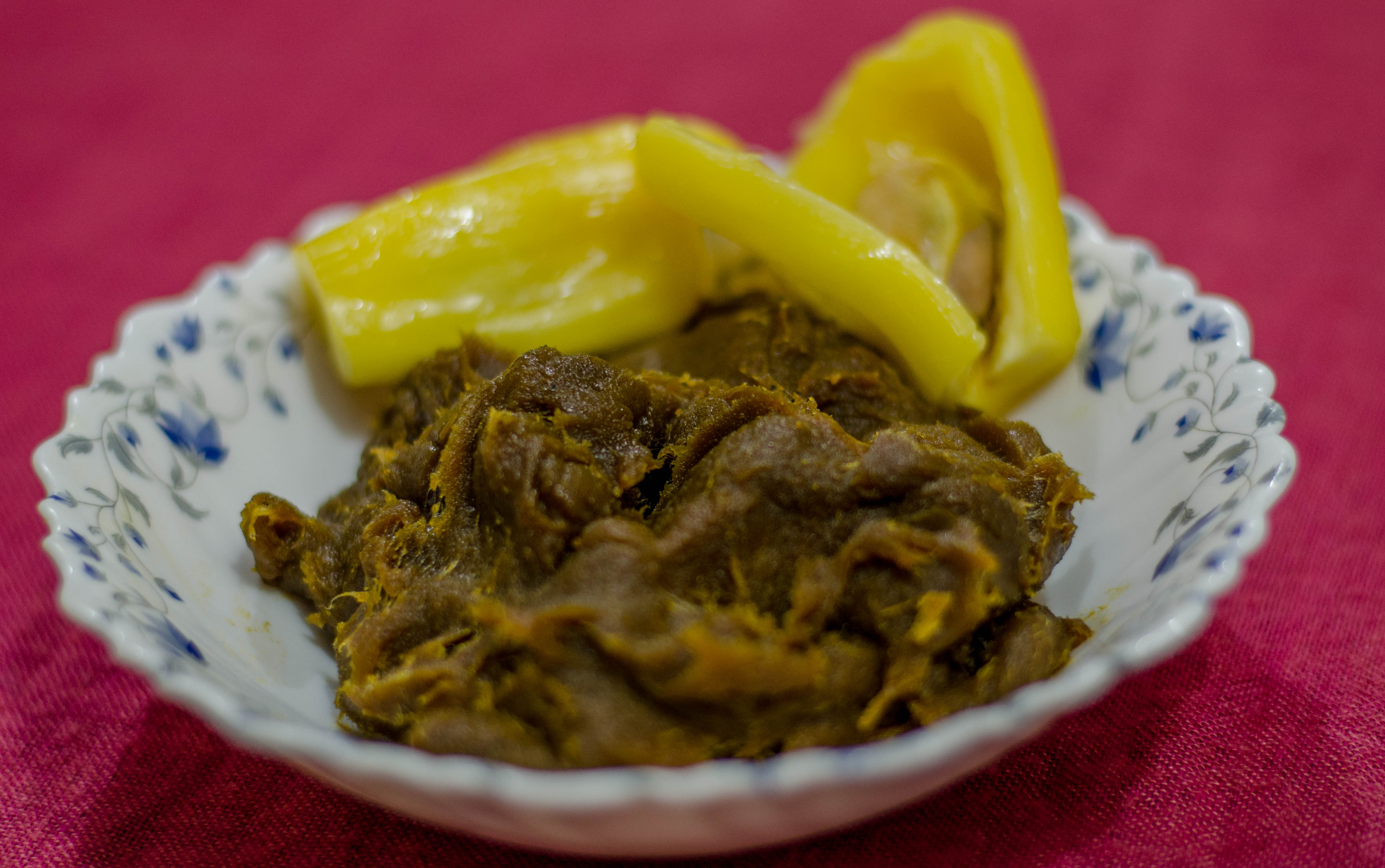 Chakkavaratty is a type of food made from jackfruit. The seeds are removed from the fruit and it is cut into small pieces. The fruit is then cooked with ghee and sarkara, when it prepared in a type of paste.